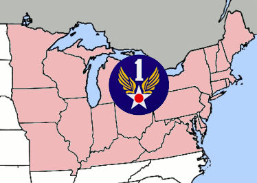 Map of World War II USAAF 1st Air Force region of the United States